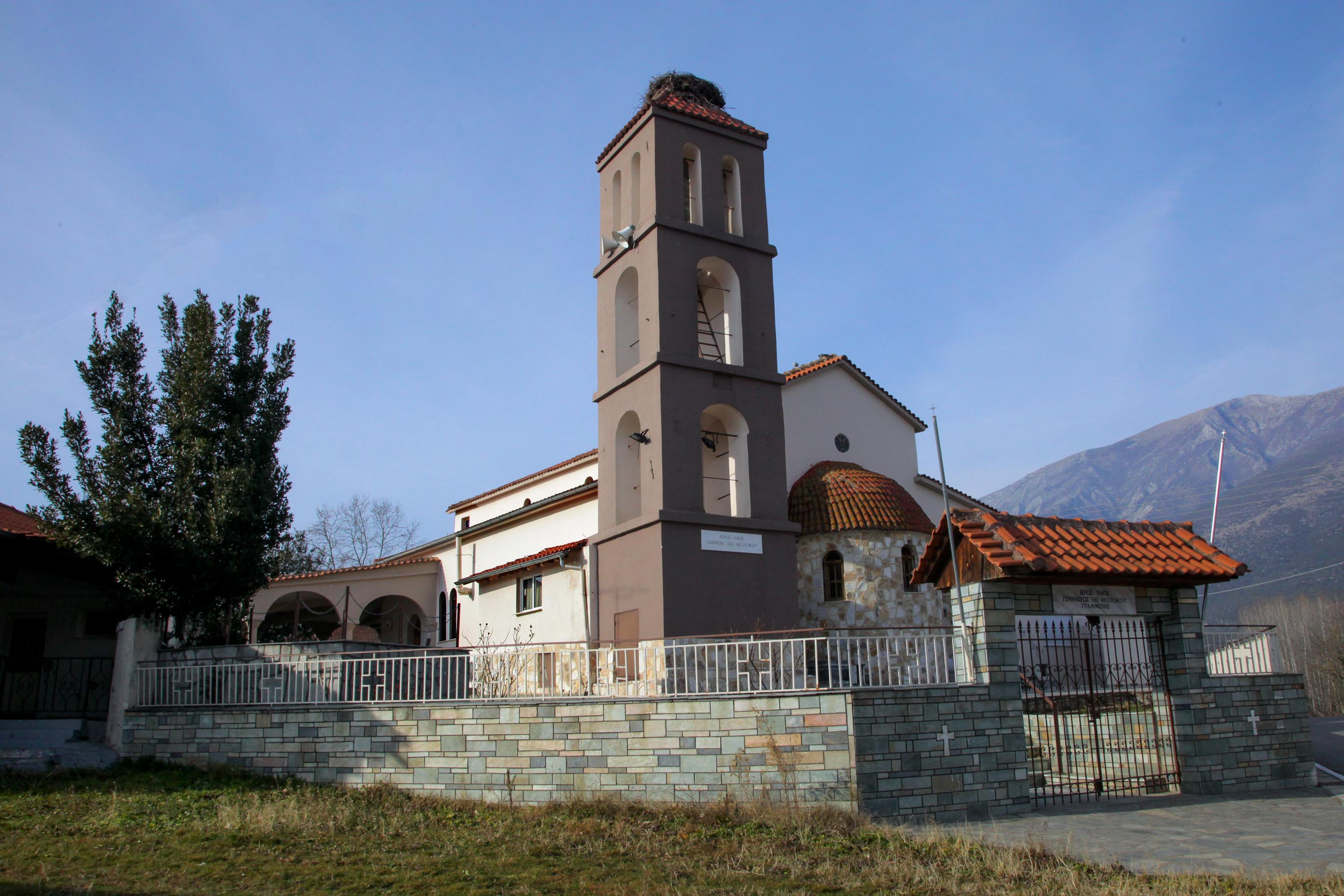 Church of Holy Mother Mary in Grammeni, Drama, Greece